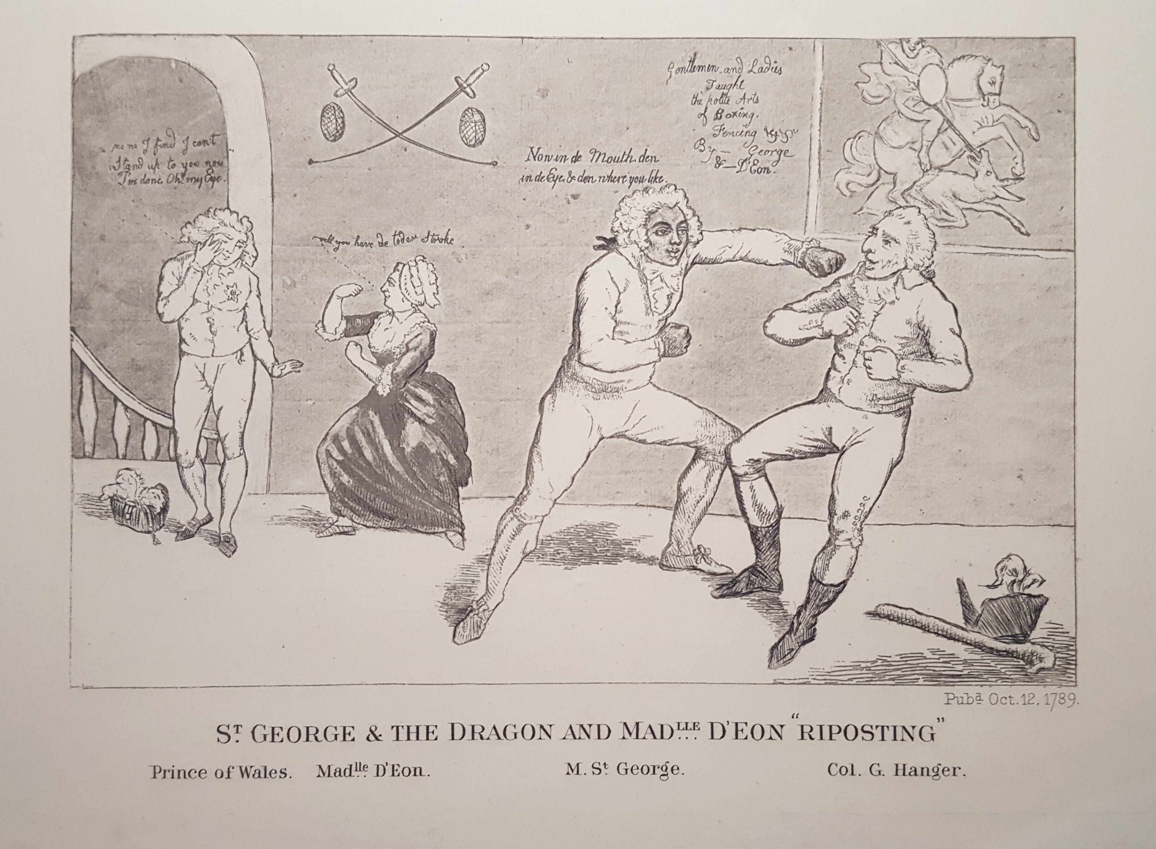 An allegorical engraving showing Joseph Bologne, Chevalier de Saint-Georges sparring with George Hanger, 4th Baron Coleraine and Charles d'Éon de Beaumont, Chevalier d'Éon (who dressed and identified as a woman after 1777) fighting with the Prince of Wales (the future King George IV). It draws on the fencing exhibitions preformed by the Chevalier de Saint-Georges and his work with anti-slavery groups, as well as an unsuccessful assassination attempt on Saint-Georges, presumeably for his abolitionist activities.